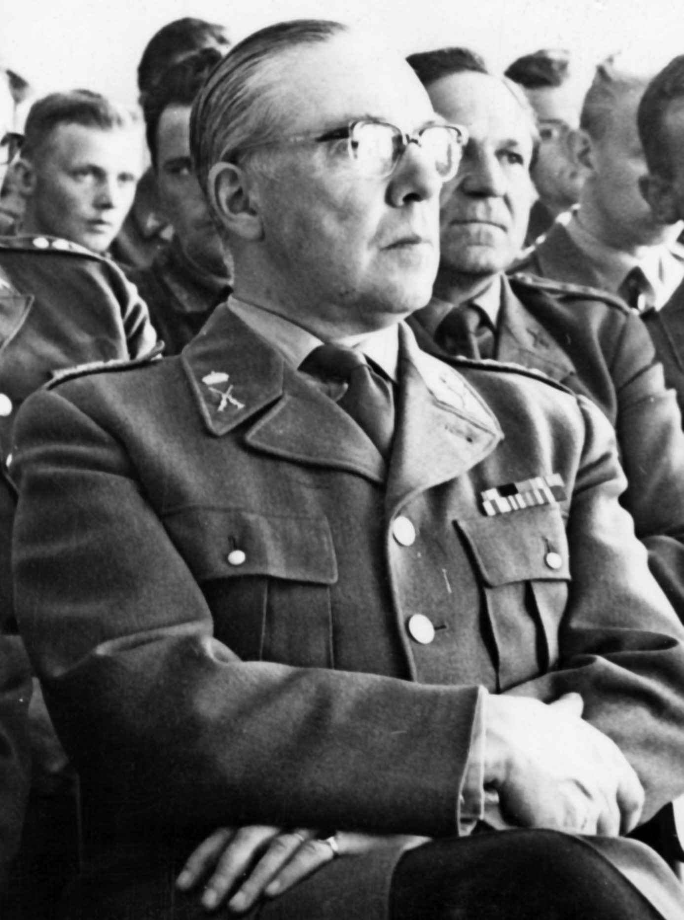 Colonel Fritz-Ivar Virgin, commander of Södermanland Regiment, during a study visit to SKF in Katrineholm in 1961. The visit was made in connection with the field exercise 17-22 April.